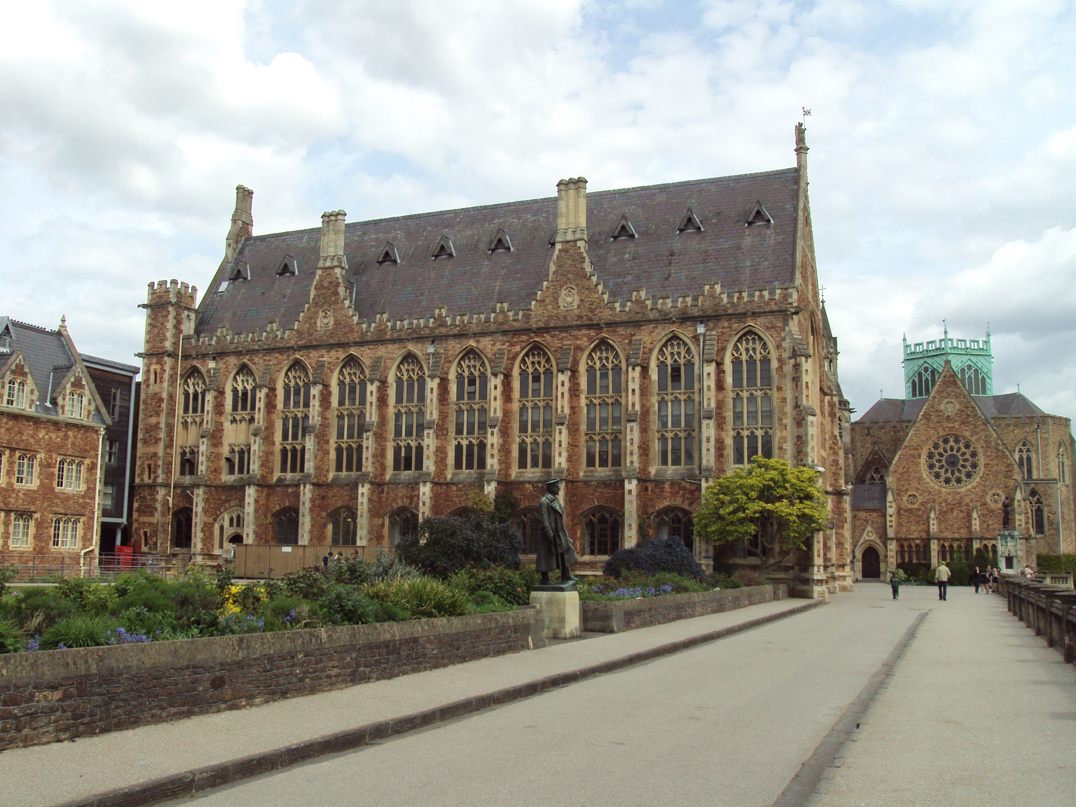 Clifton College, College Road, Clifton, Bristol.